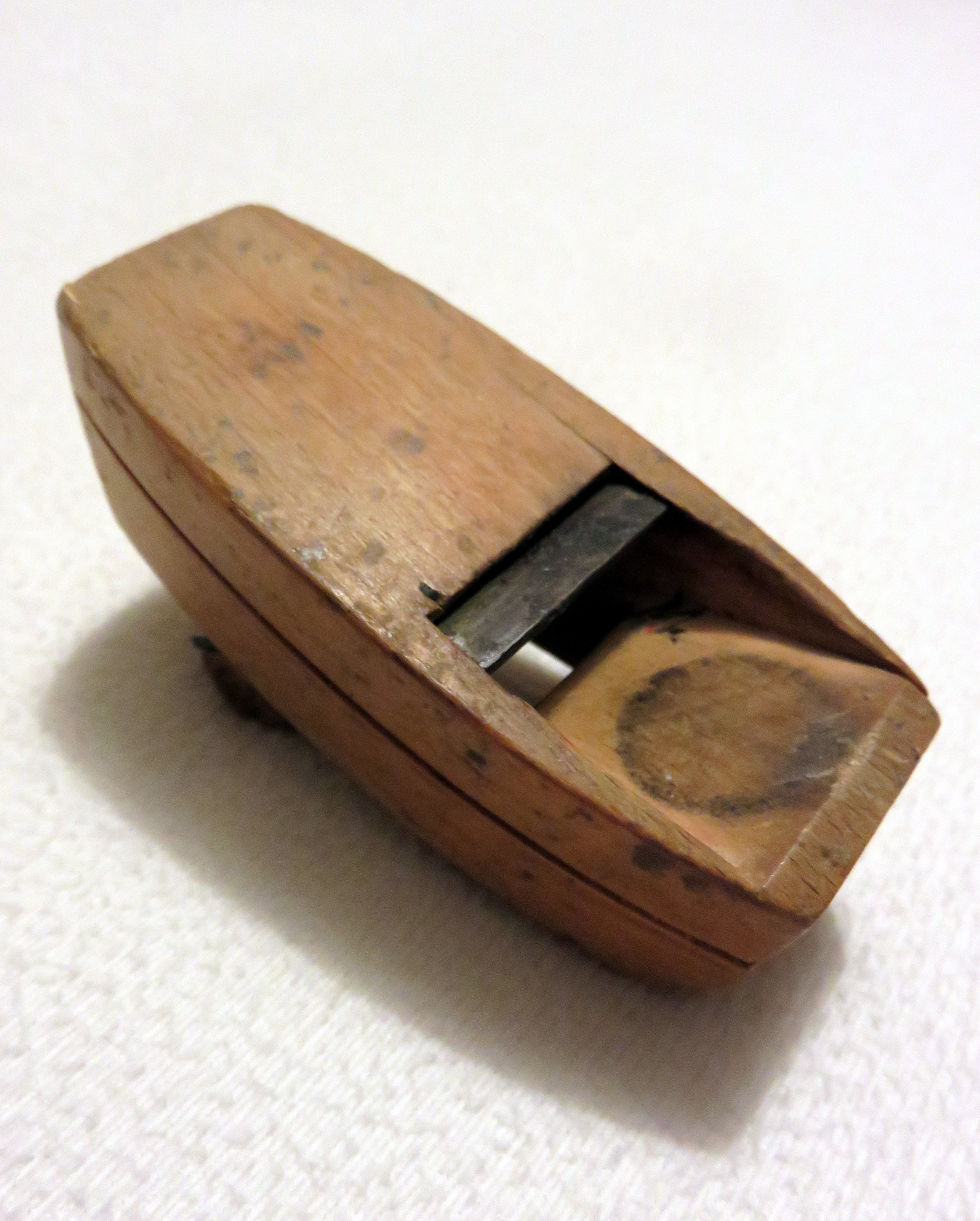 Old wooden beer bottle opener type “Bierhobel” (= miniatur wood plane), bottom side.